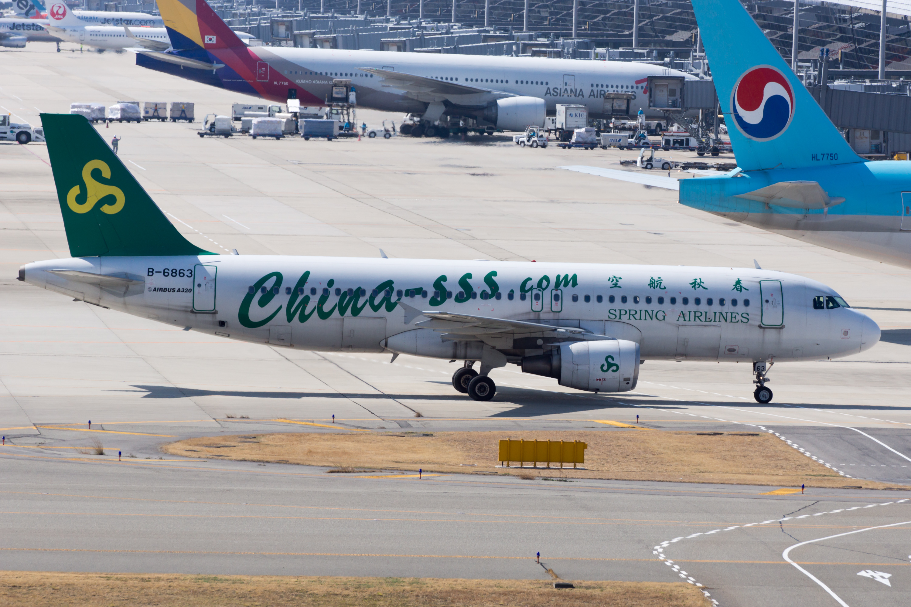 Spring Airlines ,9C8589 ,Airbus A320-214 ,B-6863 ,Arrived from Shanghai ,Kansai Airport